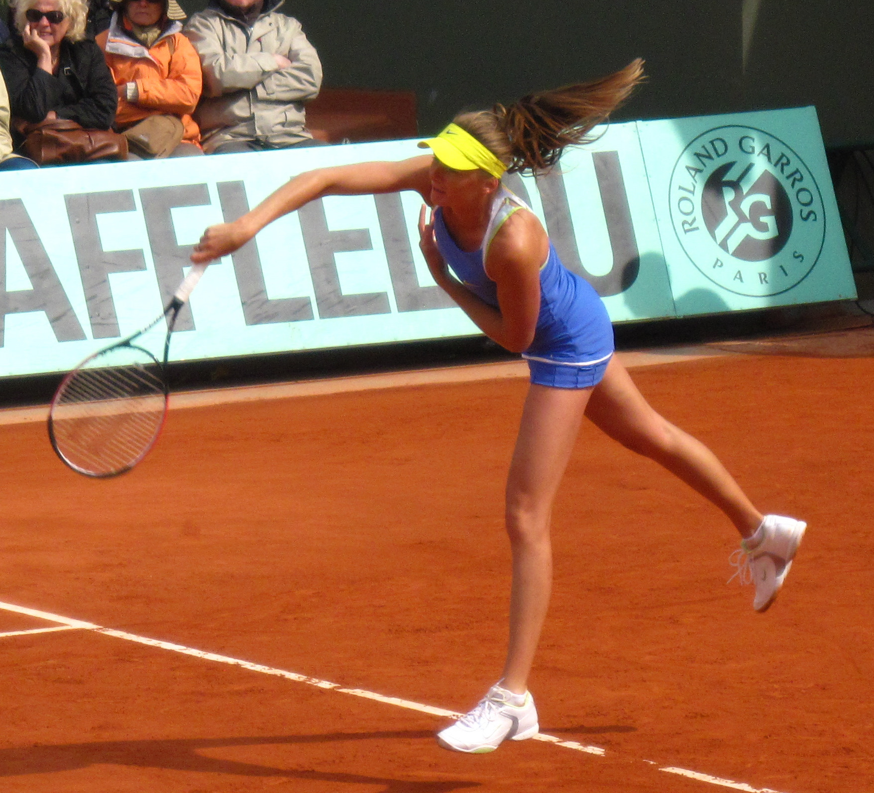 Daniela Hantuchová at 2009 Roland Garros, Paris, France